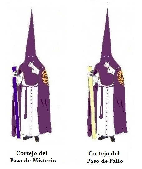 Hábito Nazareno de la Hdad. Humildad y Paciencia